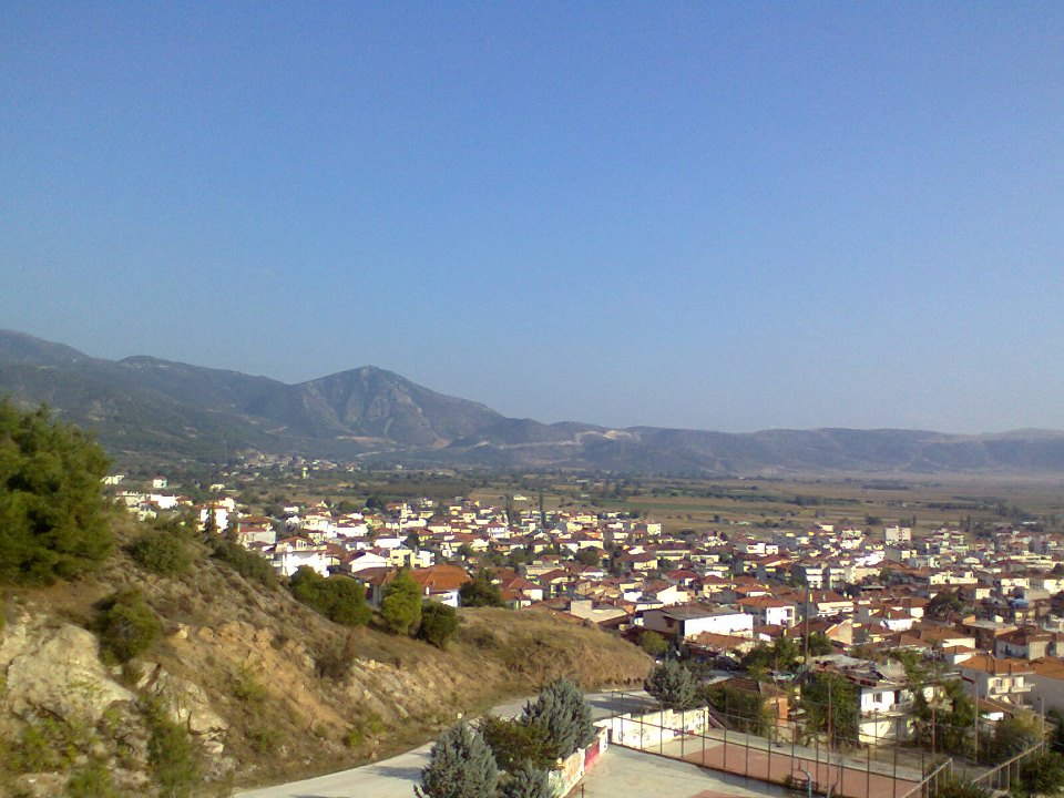 Panoramic view of Elassona, Thessaly, Greece